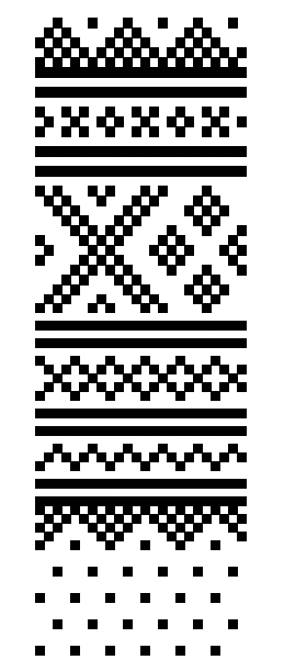 Pattern of traditional Norwegian Setesdal-sweater. The pattern is created to be used on a punch card in a knitting machine.